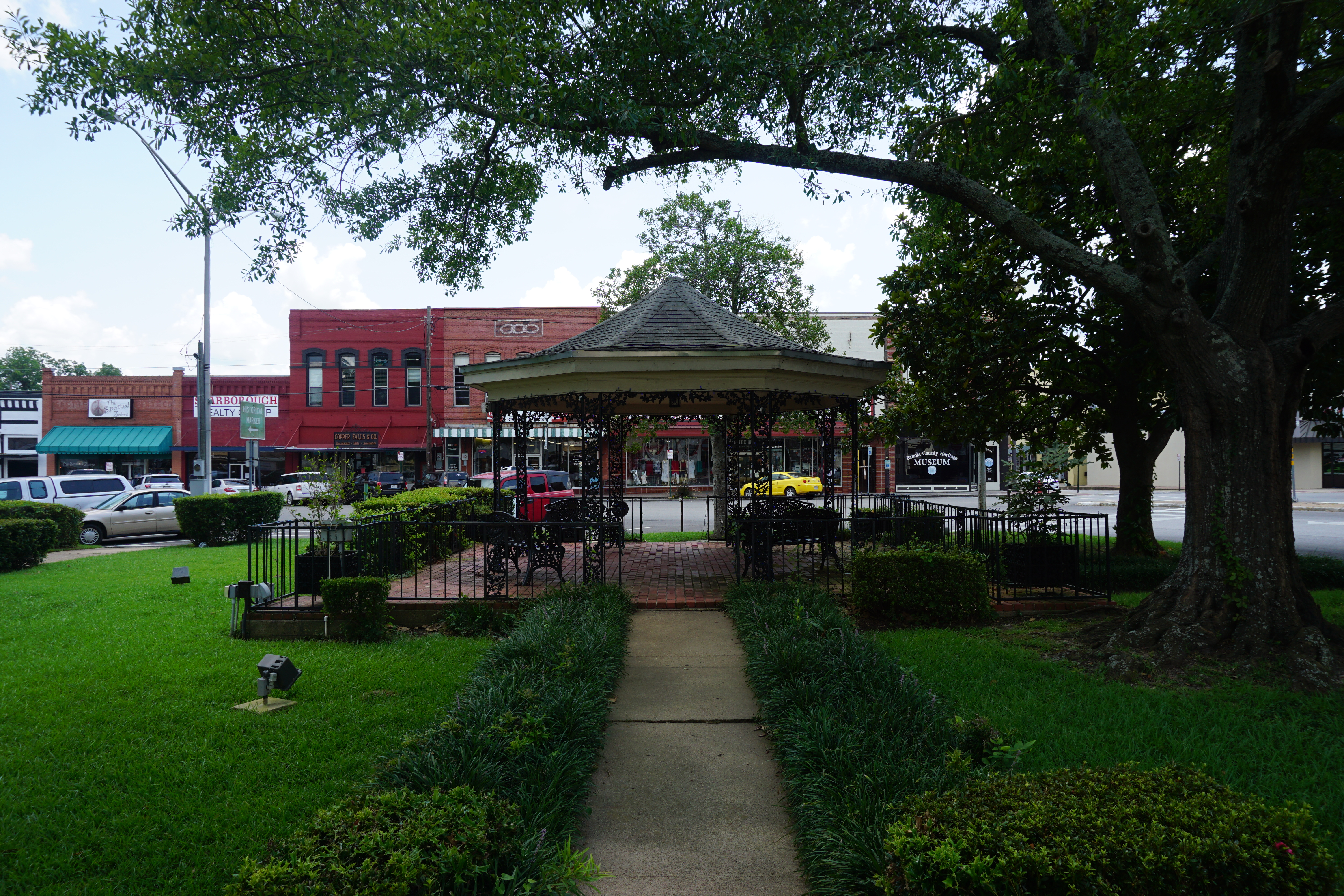 The Anderson Park gazebo in Carthage, Texas (United States).